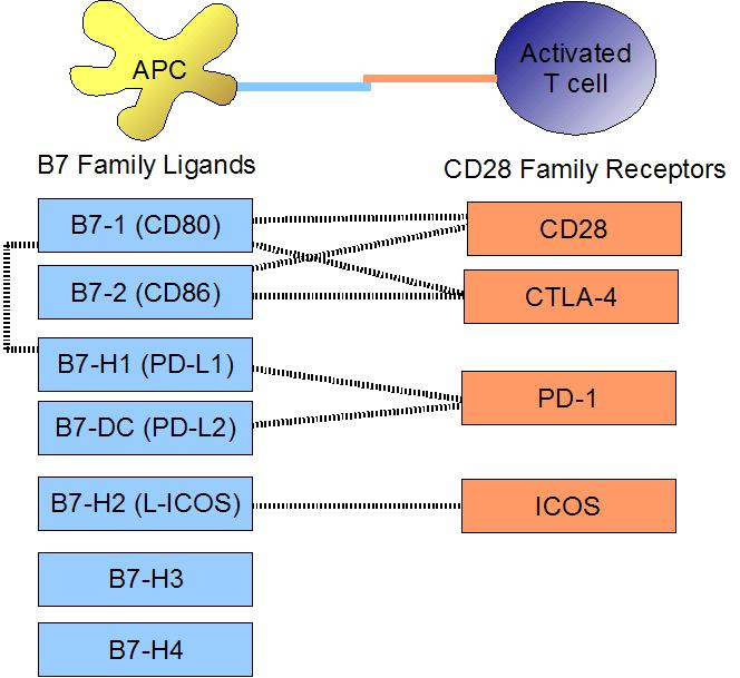 This diagram shows binding of costimulatory molecules on APCs and T cells. It shows B7 family ligands and their interactions with CD28 family receptors.